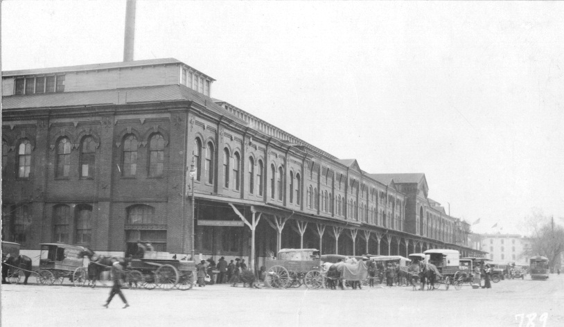 Original Caption: Showing Rear of "Center Market" Along "B" Street. On Big Market Days this Space on "B" Street is Crowded with Producers' Wagons. U.S. National Archives’ Local Identifier: 83-G-3138B From: Photographic Prints Documenting Programs and Activities of the Bureau of Agricultural Economics and Predecessor Agencies, compiled ca. 1922 - ca. 1947, documenting the period ca. 1911 - ca. 1947 Created By: Department of Agriculture. Bureau of Agricultural Economics. Division of Economic Information. (ca. 1922 - ca. 1953) Production Date: 04/02/1914 Persistent URL: Repository: National Archives at College Park - Still Pictures (RD-DC-S) For information about ordering reproductions of photographs held by the Still Picture Unit, visit: Reproductions may be ordered via an independent vendor. NARA maintains a list of vendors at